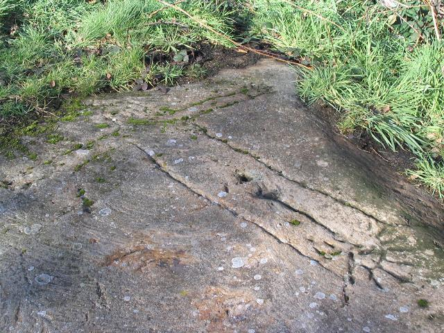 Sun Goddess on Bidston Hill. This four and a half foot long rock carving is believed to be Norse-Irish, from around 1000 A.D.